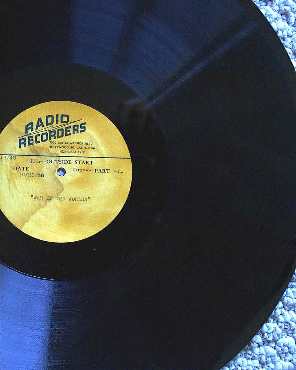 Photograph of an electrical transcription disk carrying the Orson Welles War of the Worlds broadcast. Note that this is a "dubbed" copy created ten years after the original broadcast.